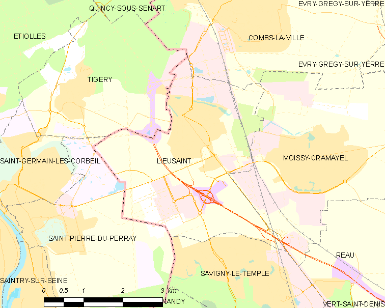 Map of French municipality Lieusaint